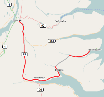 Route 92 in Iceland is shown in red, with Norðfjörður Tunnel in grey. Older versions of this file show the route going through Oddskarð. This map may be incomplete, and may contain errors. Don't rely solely on it for navigation.